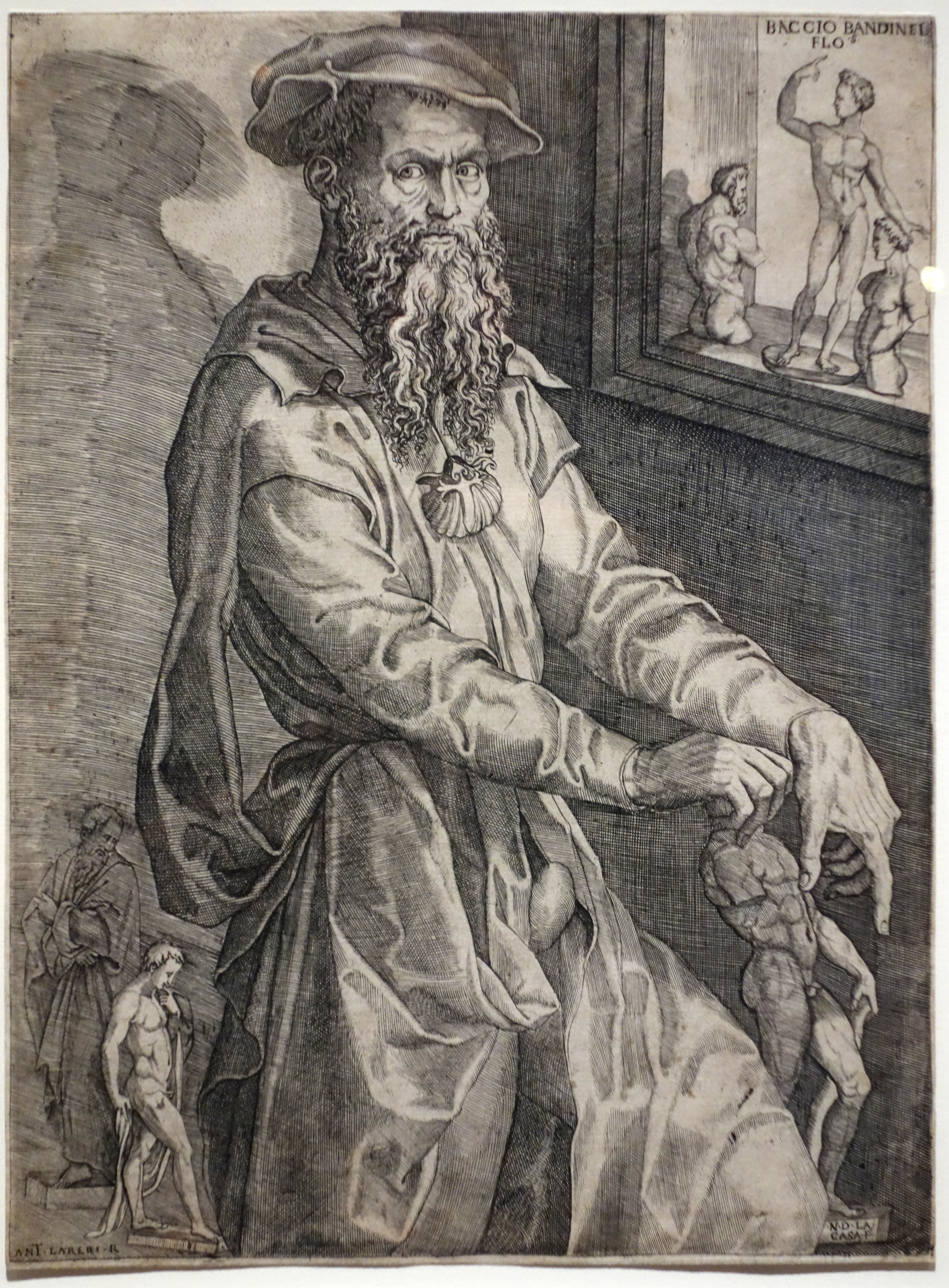 Print in the National Museum of Western Art, Tokyo, Japan. This artwork is in the public domain because the artist died more than 70 years ago.